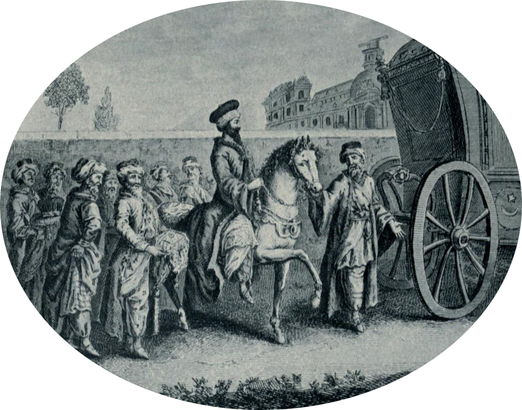 A central person is seen three straight quarters riding a horse held by a horse man. This turbaned and bearded man takes a coat. Seven persons follow the characters. They carry many probably precious objects as indicated by the cushions on which they are based. In front of the procession is part of carriage. In the background appears the perimeter wall of a large building which is featured on the upper floors.